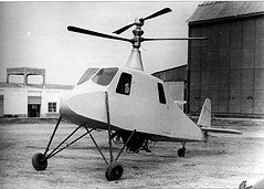 Viblandi Dragonfly (or Spanish Dragonfly), one of the first useful helicopters, design by the spanish egineer Federico Cantero Villamil.